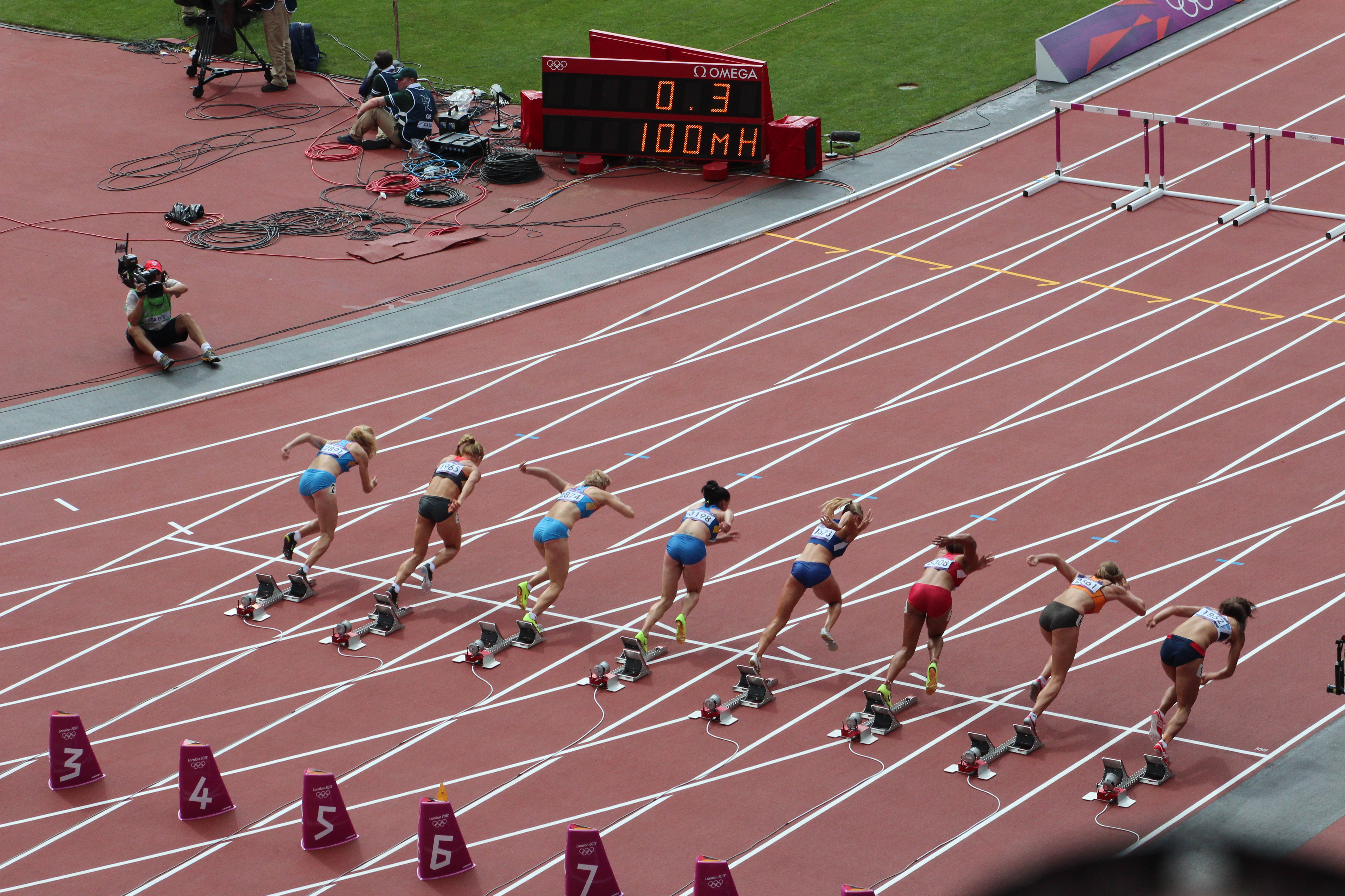 London Olympics 2012 - Friday August 3rd in the Olympic Stadium. Athletics – Women's heptathlon (100 m hurdles, heat 4) 2 2891 SAVITSKAYA Kristina 3 1965 SCHWARZKOPF Lilli 4 2874 KURBAN Olga 5 3198 YOSYPENKO Lyudmyla 6 1673 SADEIKO Grit 7 3308 MCMILLAN Chantae 8 2561 SCHIPPERS Dafne 9 1862 JOHNSON-THOMPSON Katarina